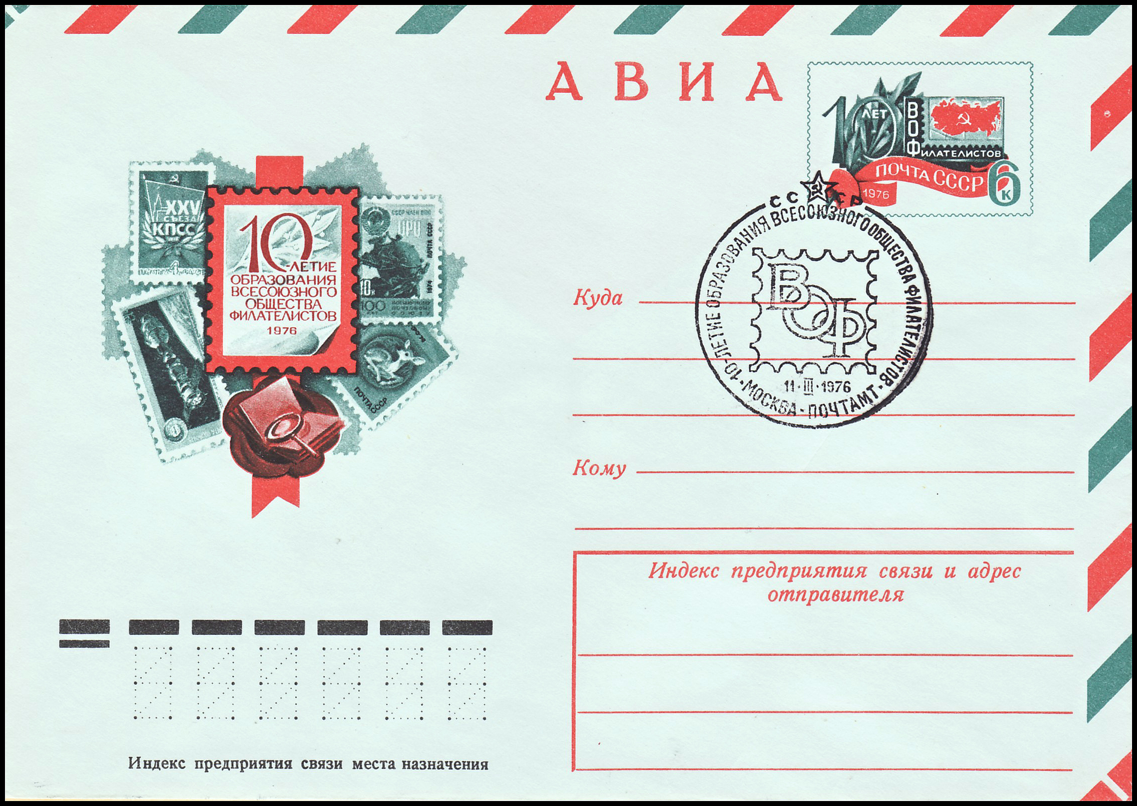 USSR, 1976. Stamped envelope with commemorative stamp. Airmail. "The 10th anniversary of the All-Union Society of philatelists" (Catalogue "Standard Collection" №25). Stamp: emblem of the Society; jubilee date framed by a laurel branch and ribbons. Illustration: Stylized postage stamp with a commemorative text; soviet postage stamps; stockbook and magnifier. Painter Y. Artsimenev. Special cancellations: "10 anniversary of the founding All-Union Society of philatelists" 11/03/1976, Moscow, Central Post Office.